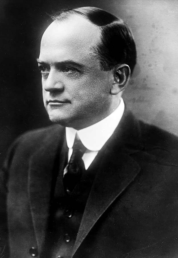 Xenophon P. Wilfley, Senator of the United States from Missouri